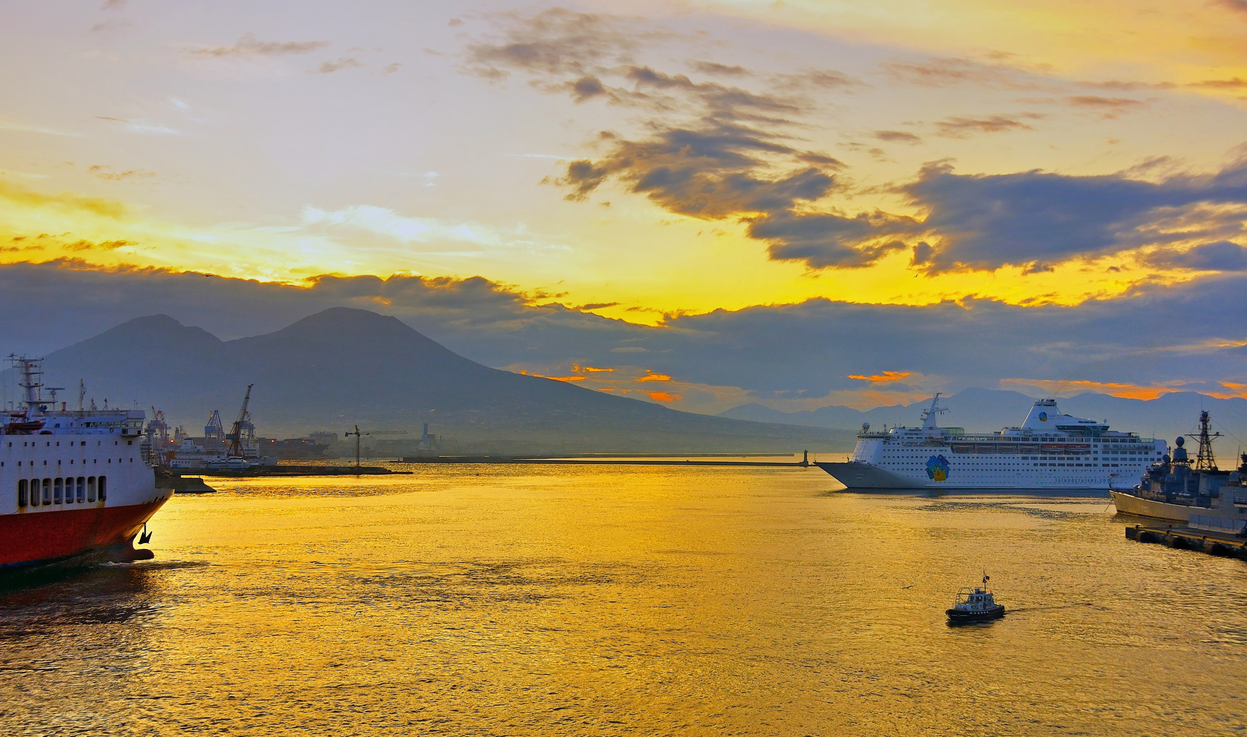 The harbor of Naples and Vesuvius at dawn. Italy